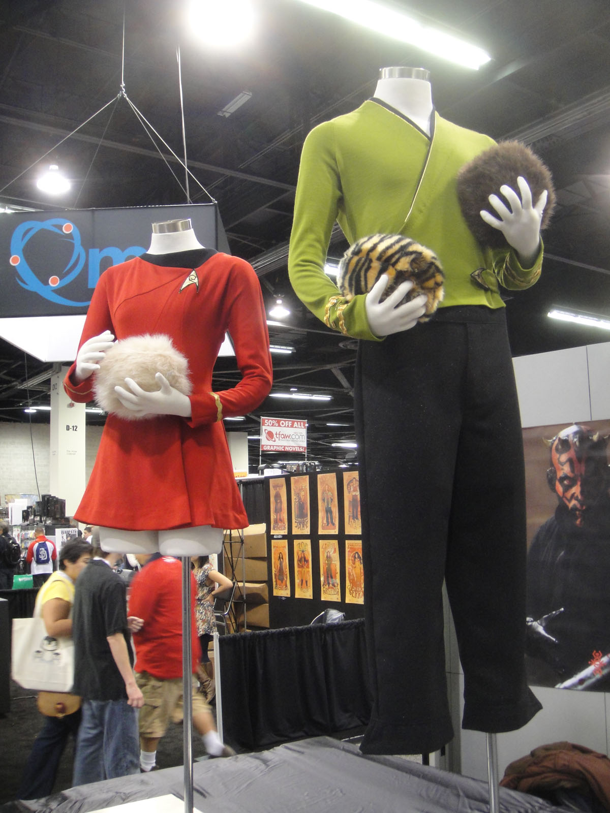 photo © 2012 taken by Doug Kline If you're interested in higher resolution versions of my images, contact me via my profile page.